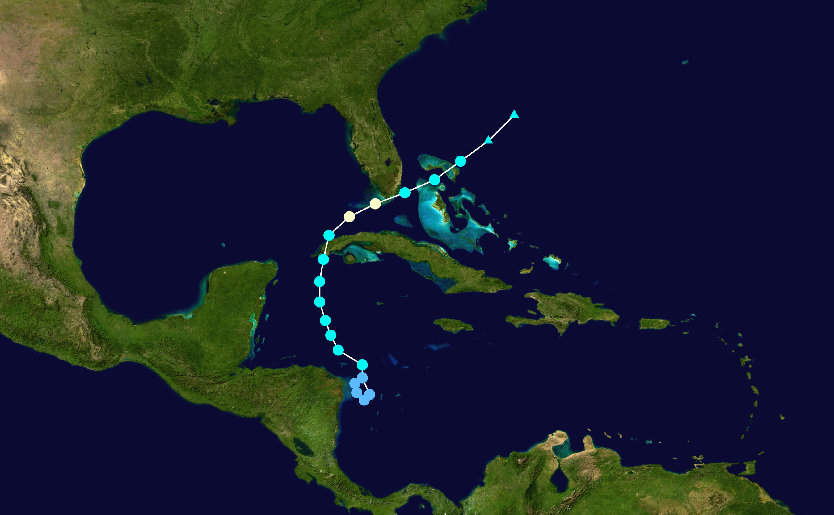 Hurricane Floyd (1987) track. Uses the color scheme from the Saffir-Simpson Hurricane Scale.